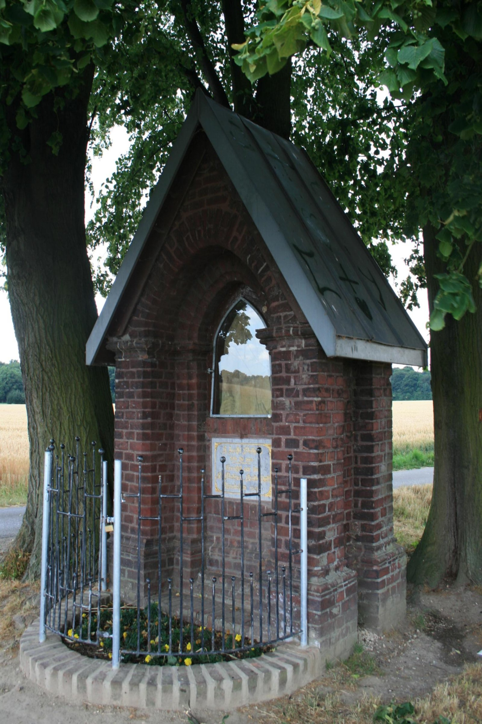 Cultural heritage monument No. P 015 in Mönchengladbach